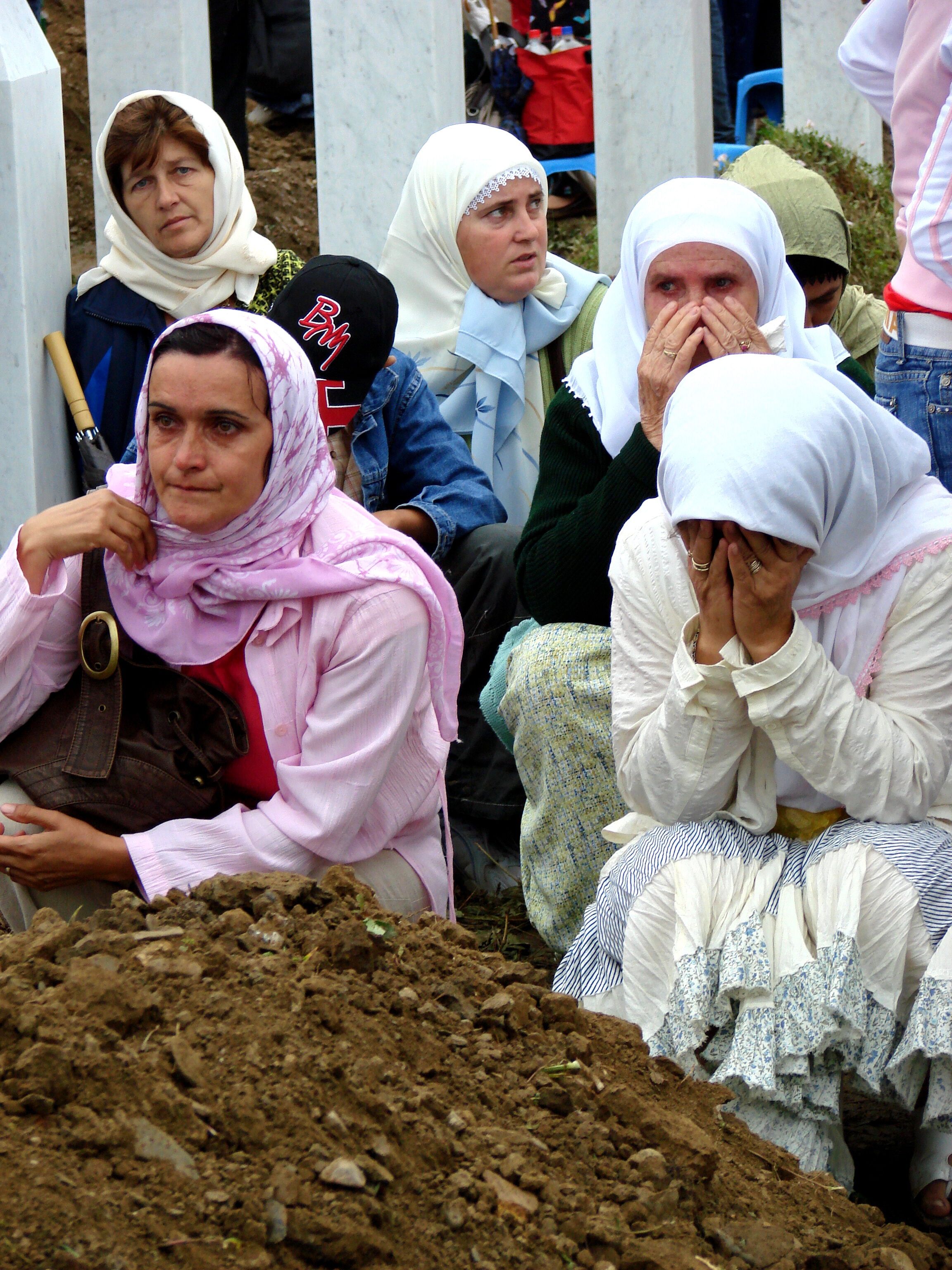 Women mourners at the annual memorial ceremony for victims of the July 1995 Srebrenica Massacre. Potocari, Bosnia and Herzegovina. July 11, 2007.